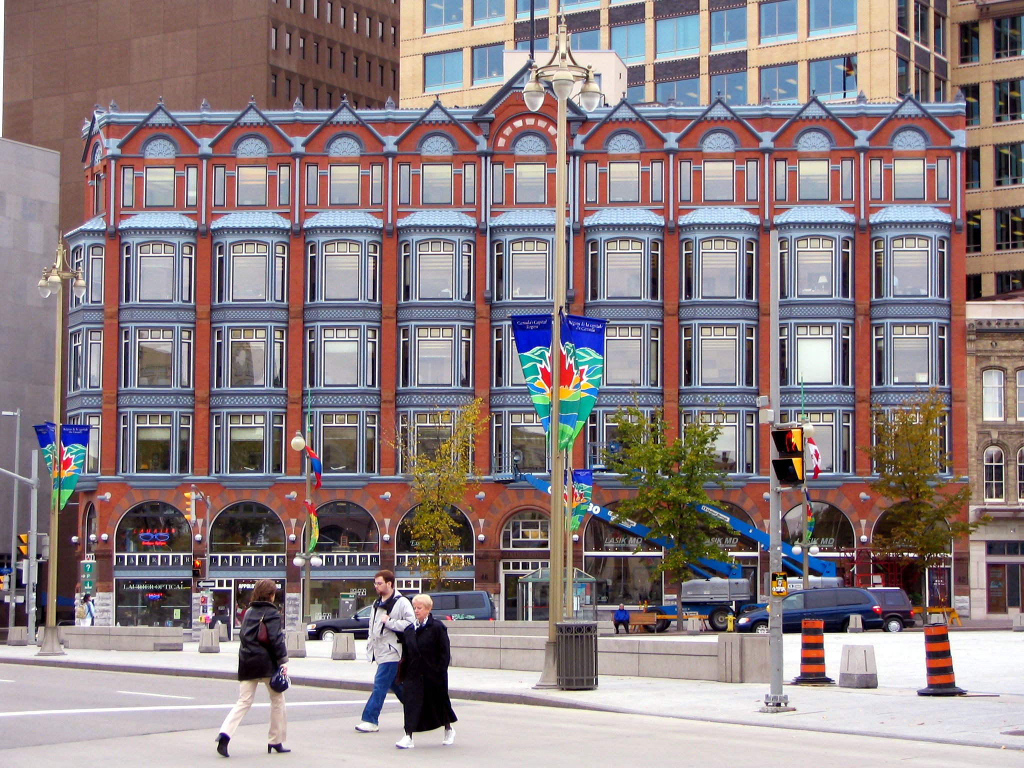 The Chambers Building on Elgin Street, across from Confederation Square, in Ottawa, Canada.